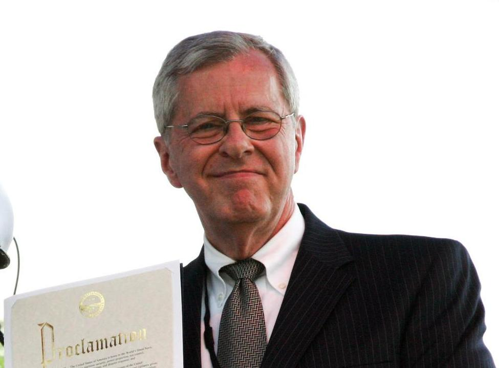 Chattanooga, Tennessee, mayor Ron Littlefield